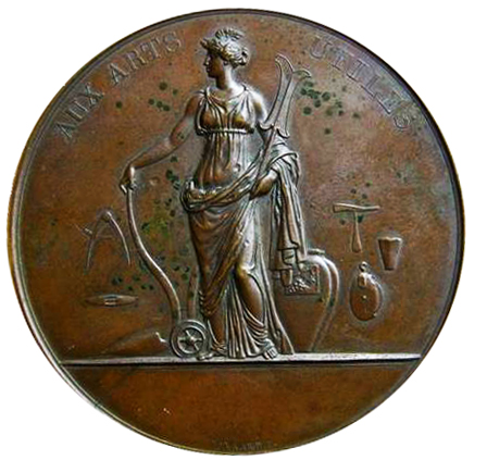 1834 Paris Industry Exposition bronze medal celebrating The Useful Arts